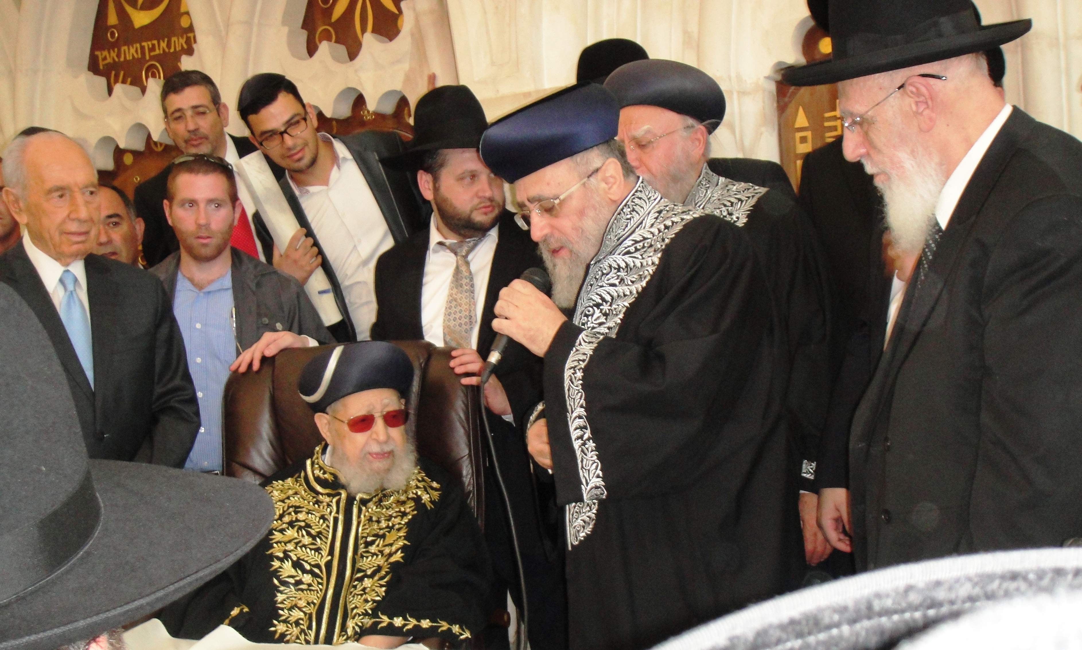 Coronation of Rabbi Yitzchak Yosef as Sephardi Chief Rabbi of Israel. Seen in picture: President Shimon Peres (far left), Rabbi Ovadia Yosef (seated), Rabbi Yitzchak Yosef (speaking into microphone), Rabbi Shalom Cohen (far right).